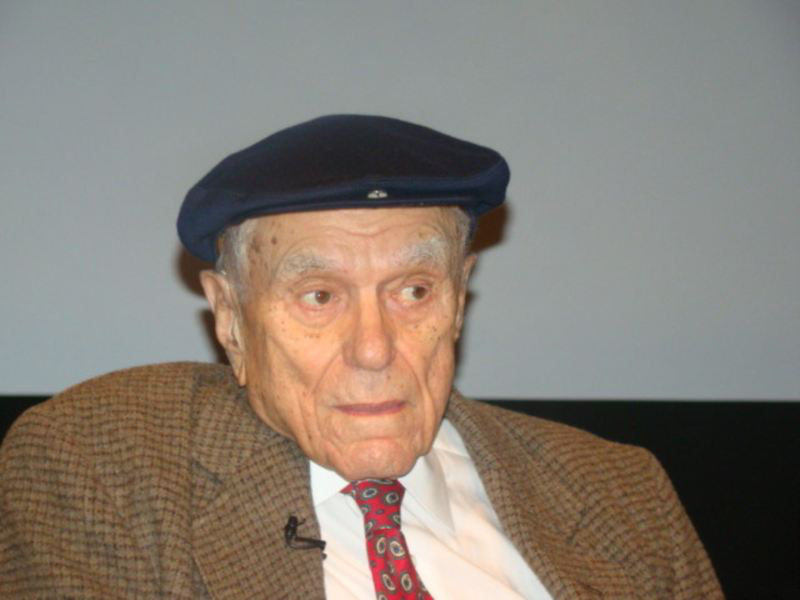 Sidney Rittenberg, 2012